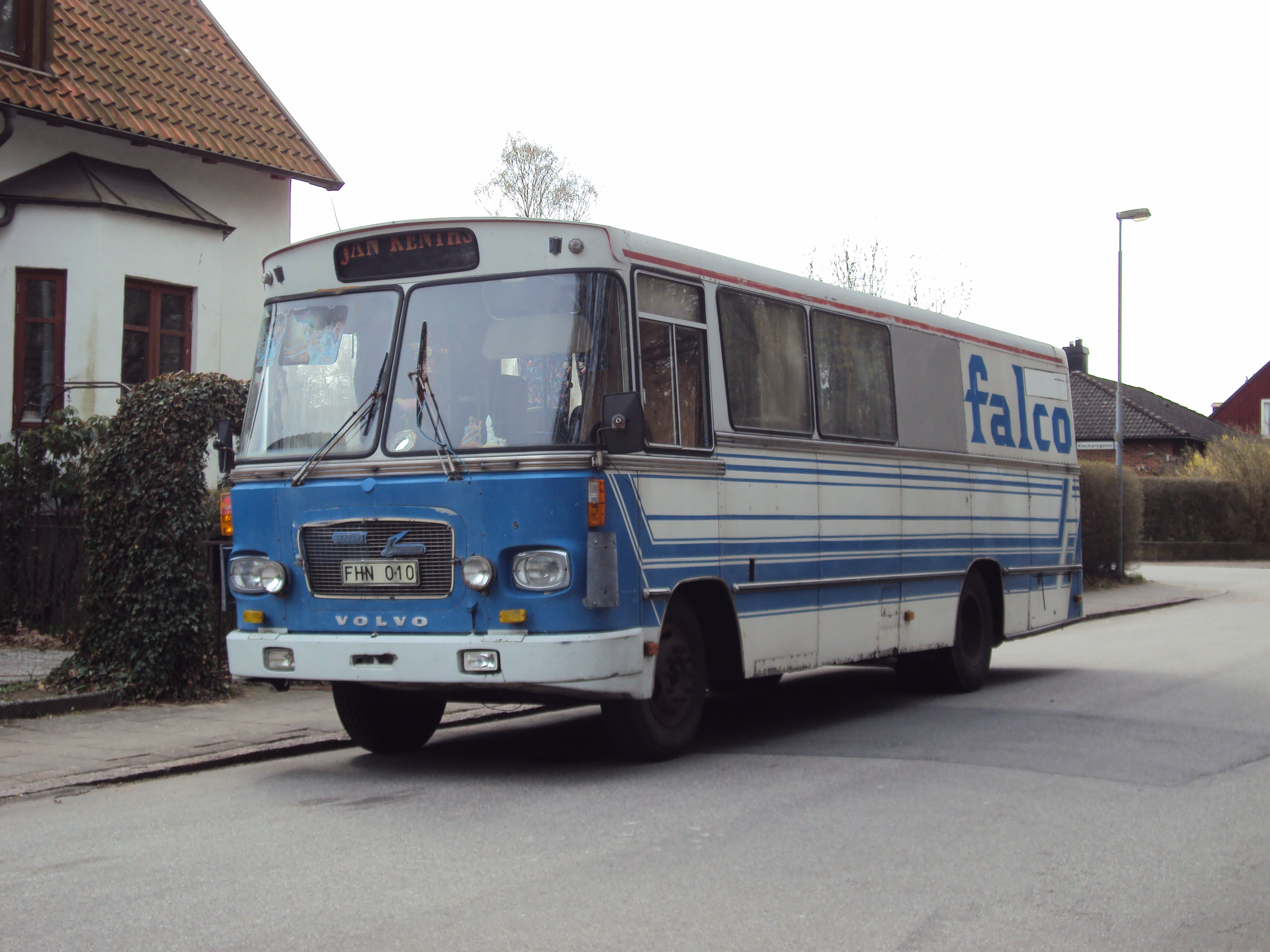 Volvo B54-47T bus (reg. FHN 010) with H. Höglund & Co, Säffle body in Sweden. Built 1968.